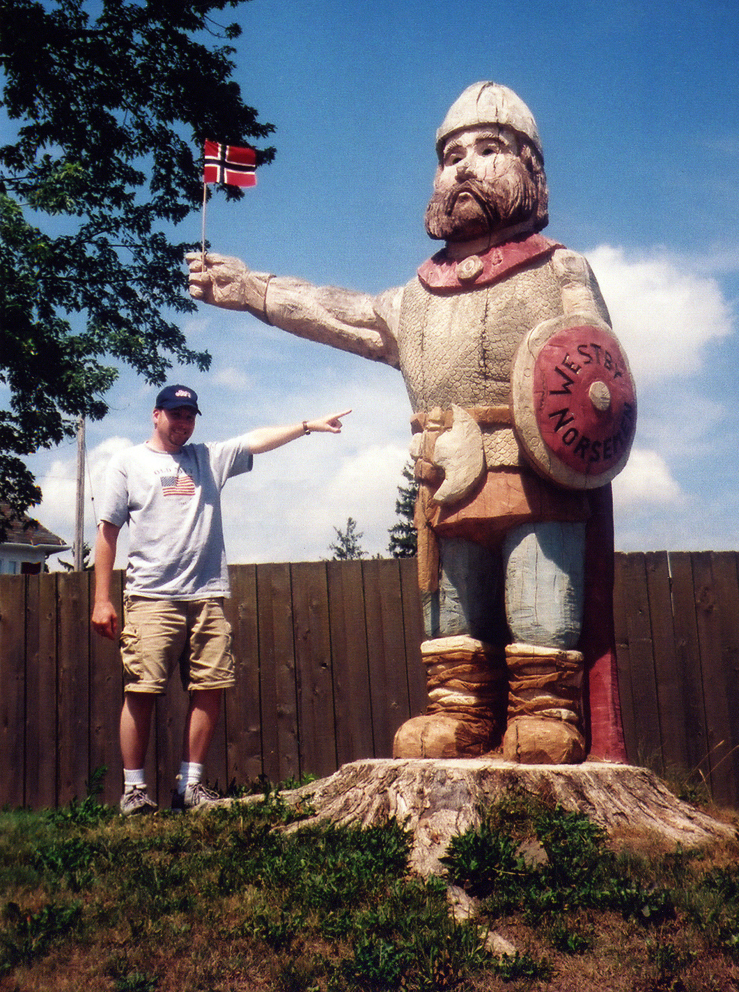 Westby, Wisconsin